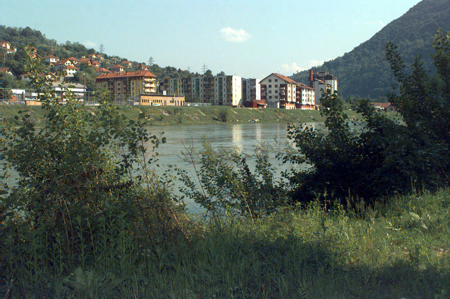 Looking at Serbia out across the Drina River which forms the border between Bosnia-Herzegovina and Serbia along route Sparrow. This Photograph was taken near the town of Zvornik, Bosnia-Herzegovina (CQ3313). Operation Joint Endeavor